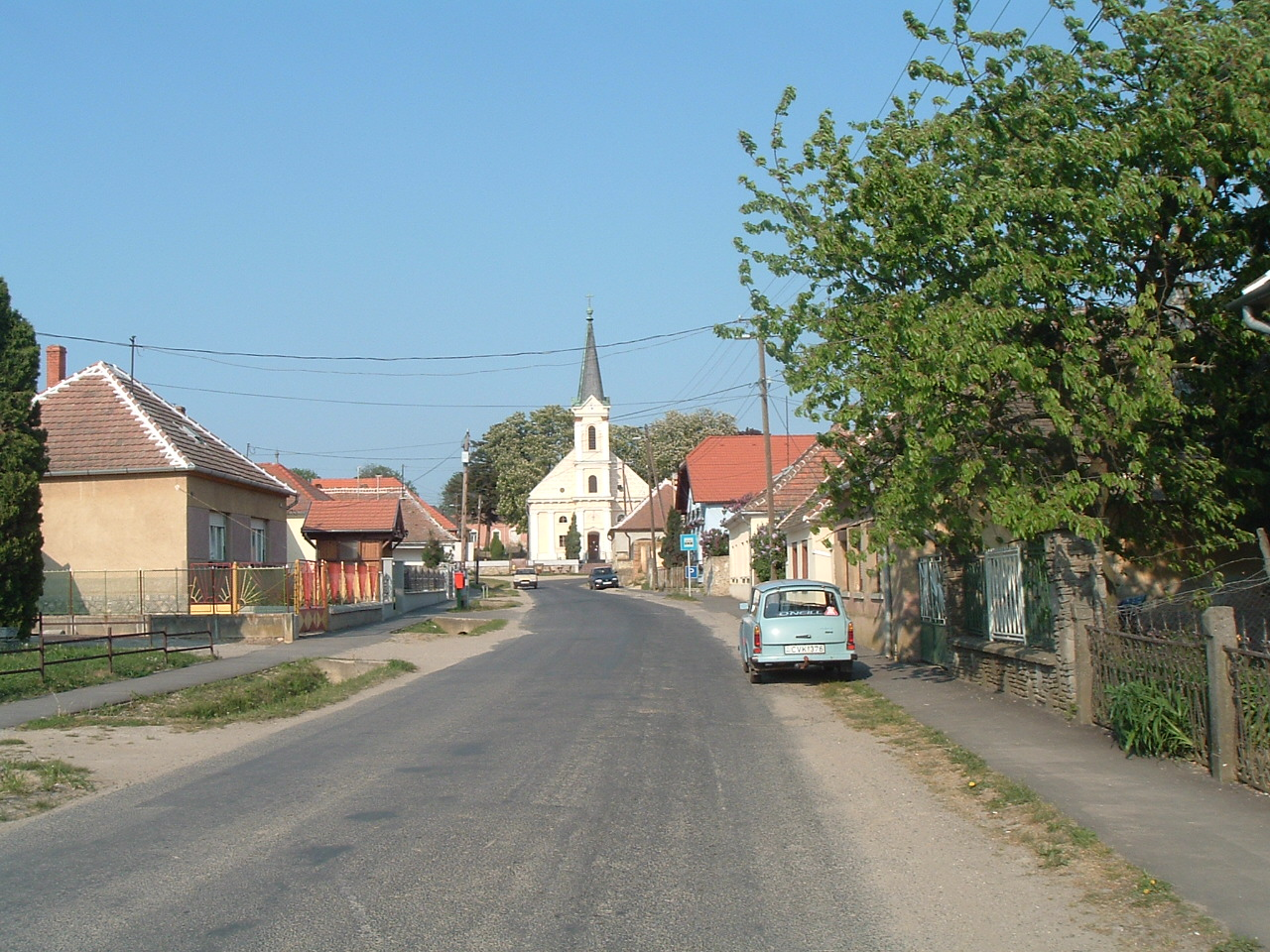 Nemescsó, The Main Street with the Lutheran Church